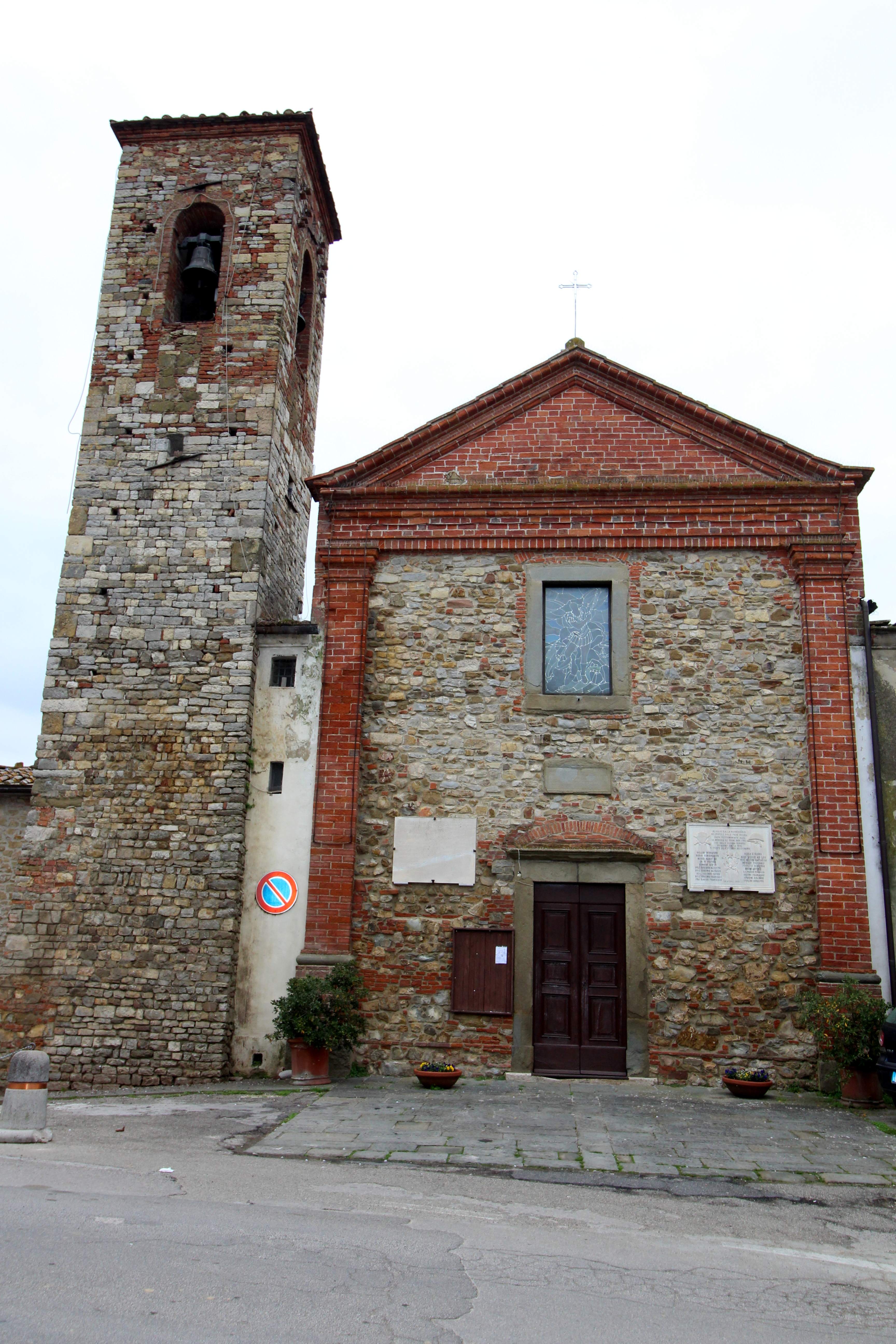 Church San Biagio, Pieve Vecchia, hamlet of Lucignano (della Chiana), Province of Arezzo, Tuscany, Italy